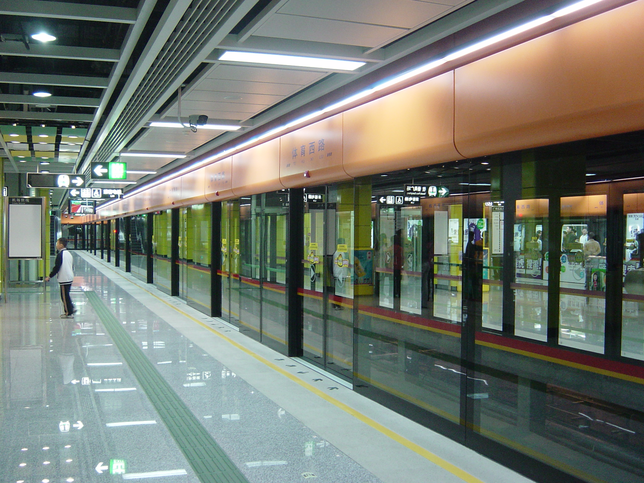 Line 3 of the Guangzhou Metro at Tiyu Xilu Station.